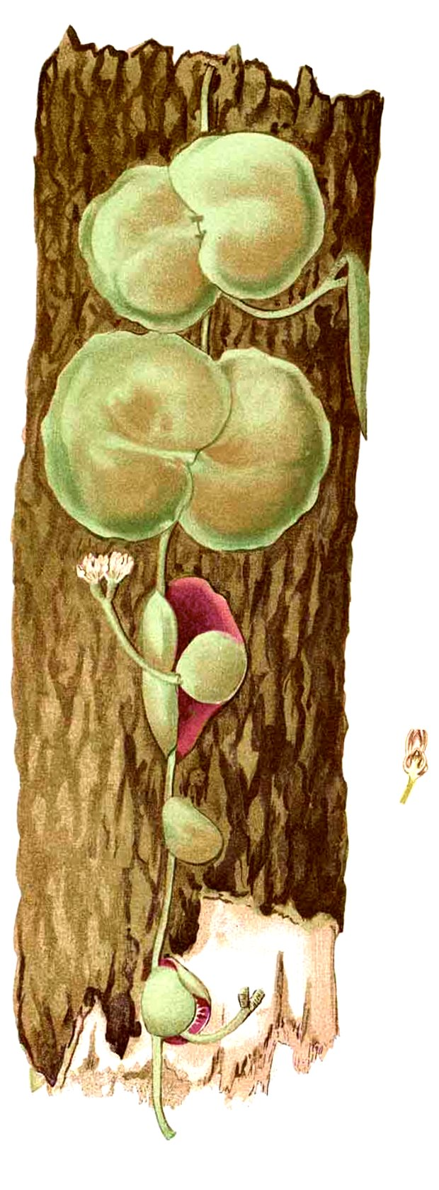 Plate from book